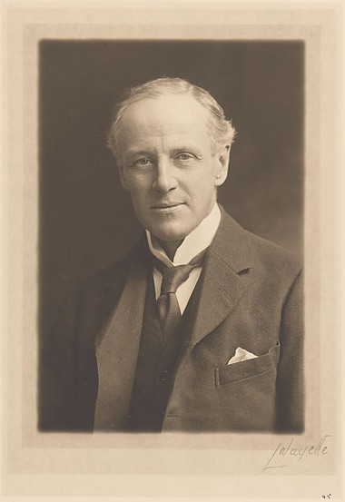 A portrait photograph of Sir Sidney Arthur Taylor Rowlatt (20 July 1862 – 1 March 1945), an English lawyer and judge, best remembered for his controversial presidency of the Rowlatt committee, a sedition committee appointed in 1918 by the British Indian Government to evaluate the links between political terrorism in India, especially Bengal and the Punjab, and the German government and the Bolsheviks in Russia. The committee gave rise to the Rowlatt Act, an extension of the Defence of India Act 1915.